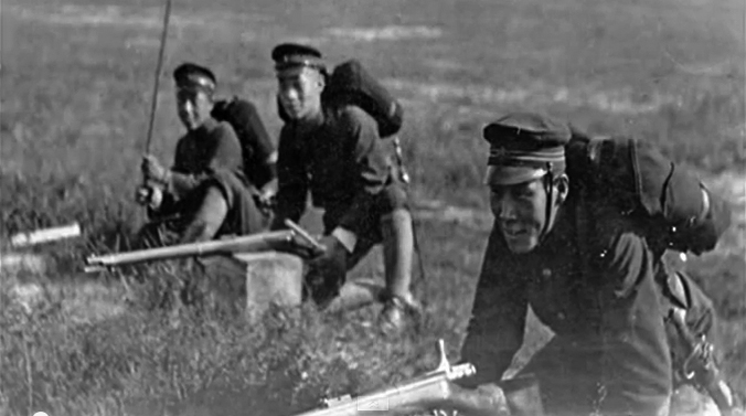 Japanese soldiers armed with Type 18 Murata rifles, ca. 1890